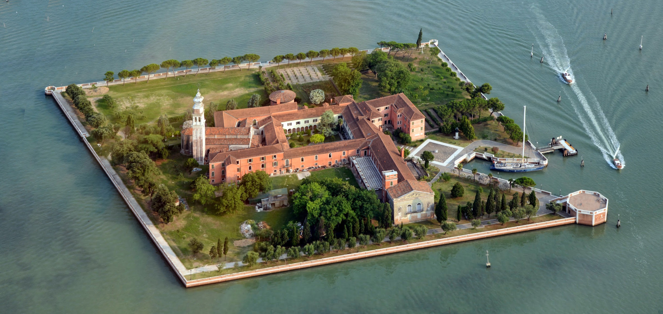 Aerial photographs of Venice